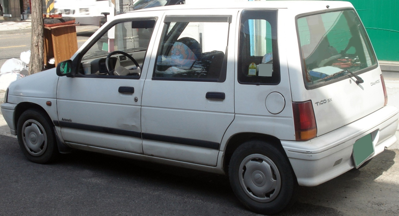 Daewoo Tico